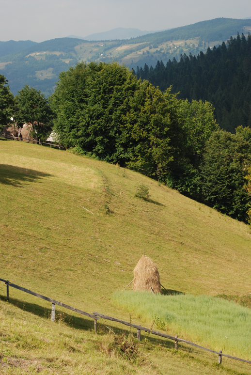 Patrahaitesti, Tara Motilor